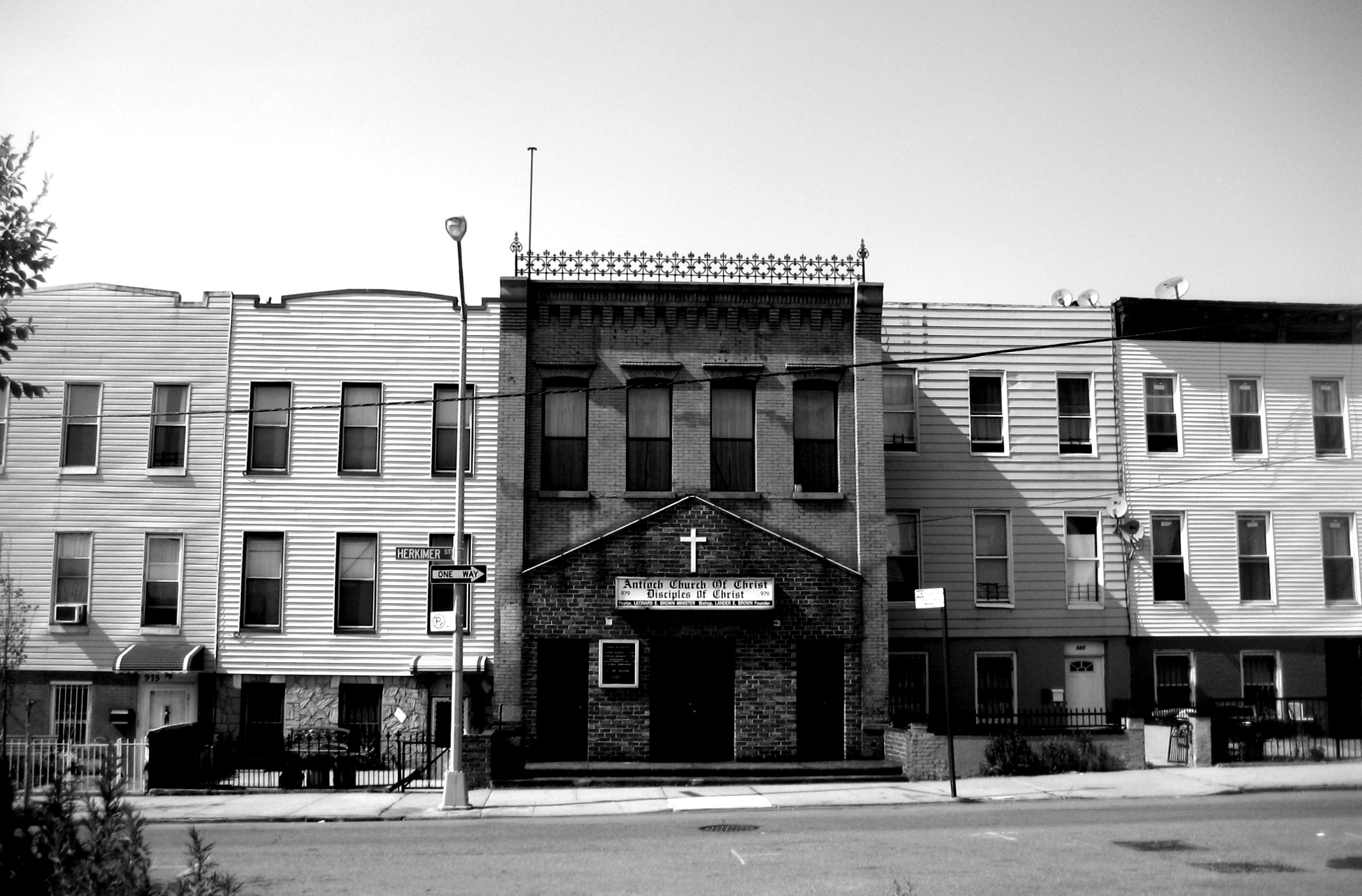 Corner of Herkimer St & Prescott Pl, Ocean Hill. I took this photo and release it under cc-by-sa. From [1].